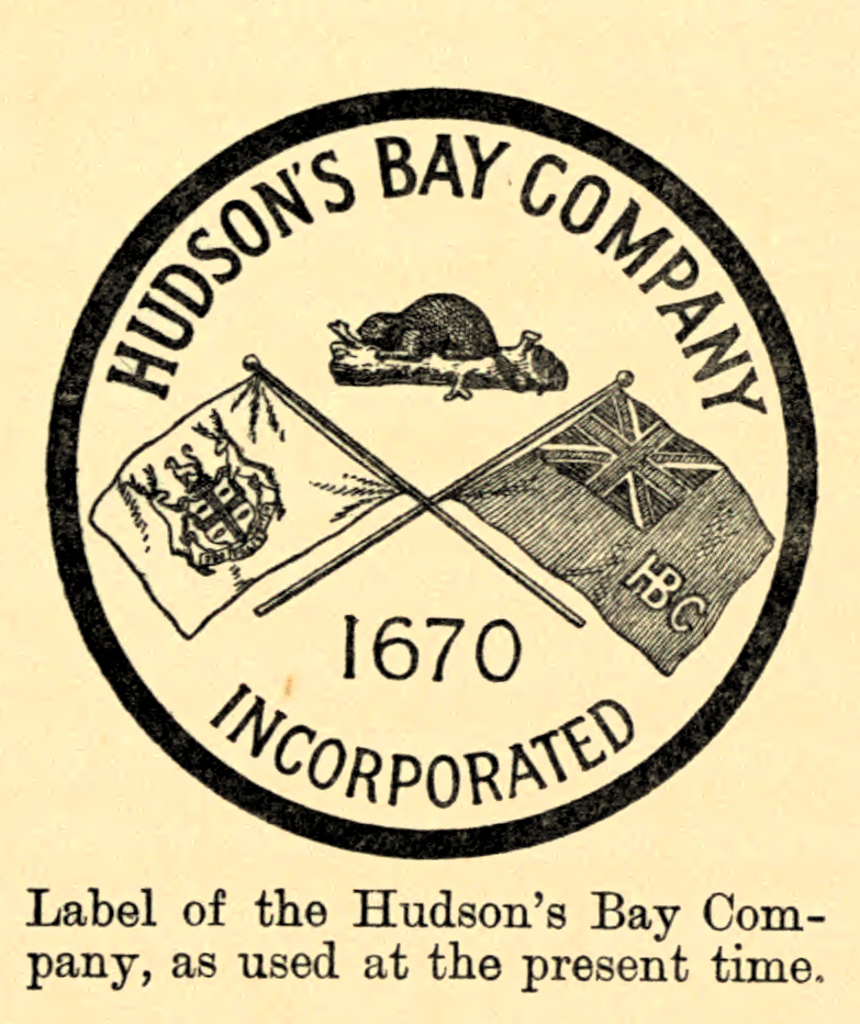 Illustration from the book The romance of the beaver; being the history of the beaver in the western hemisphere by Dugmore, Arthur Radclyffe, 1914.